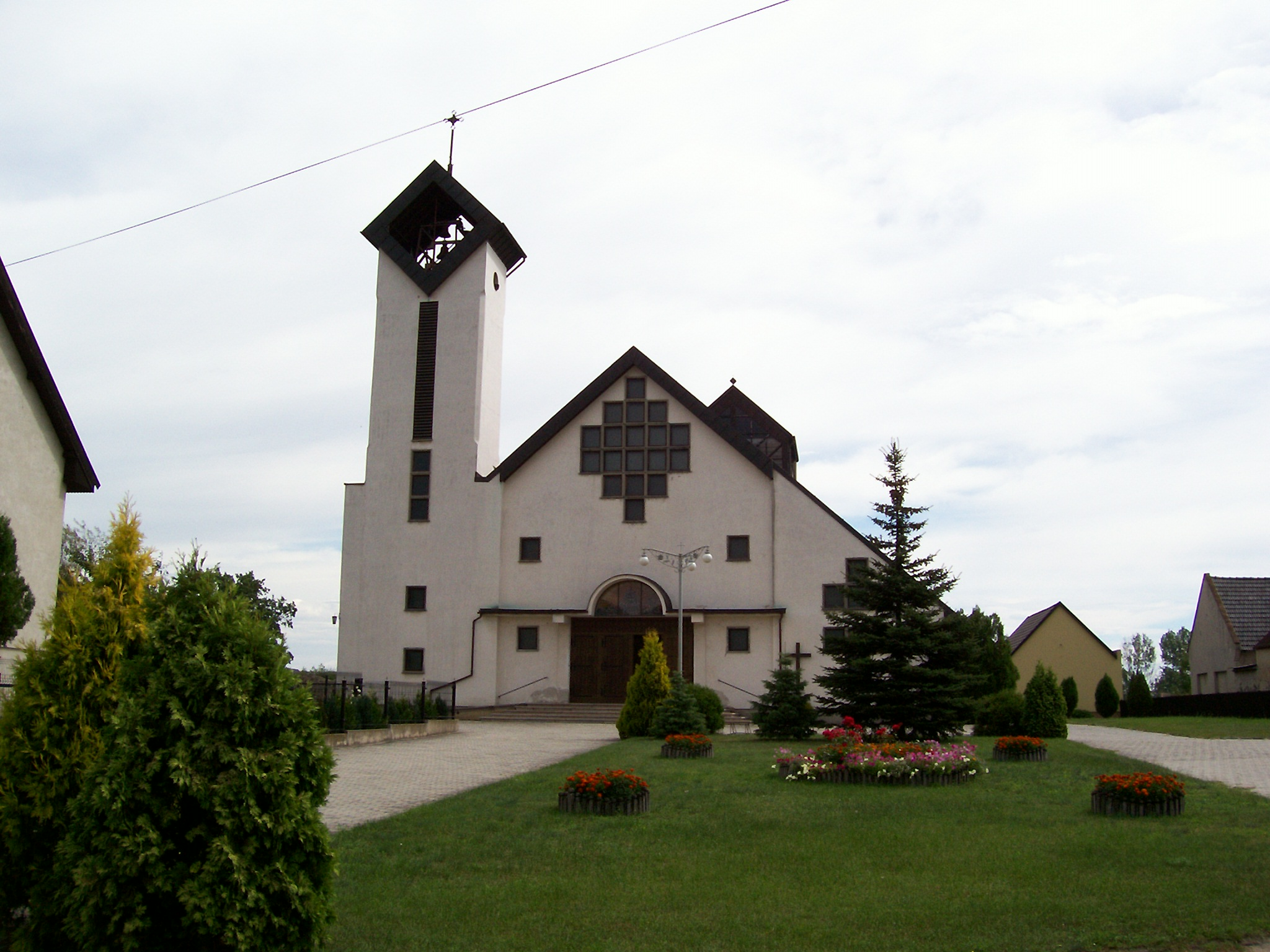 The church of St. Jadwiga of Poland in Opole-Malina